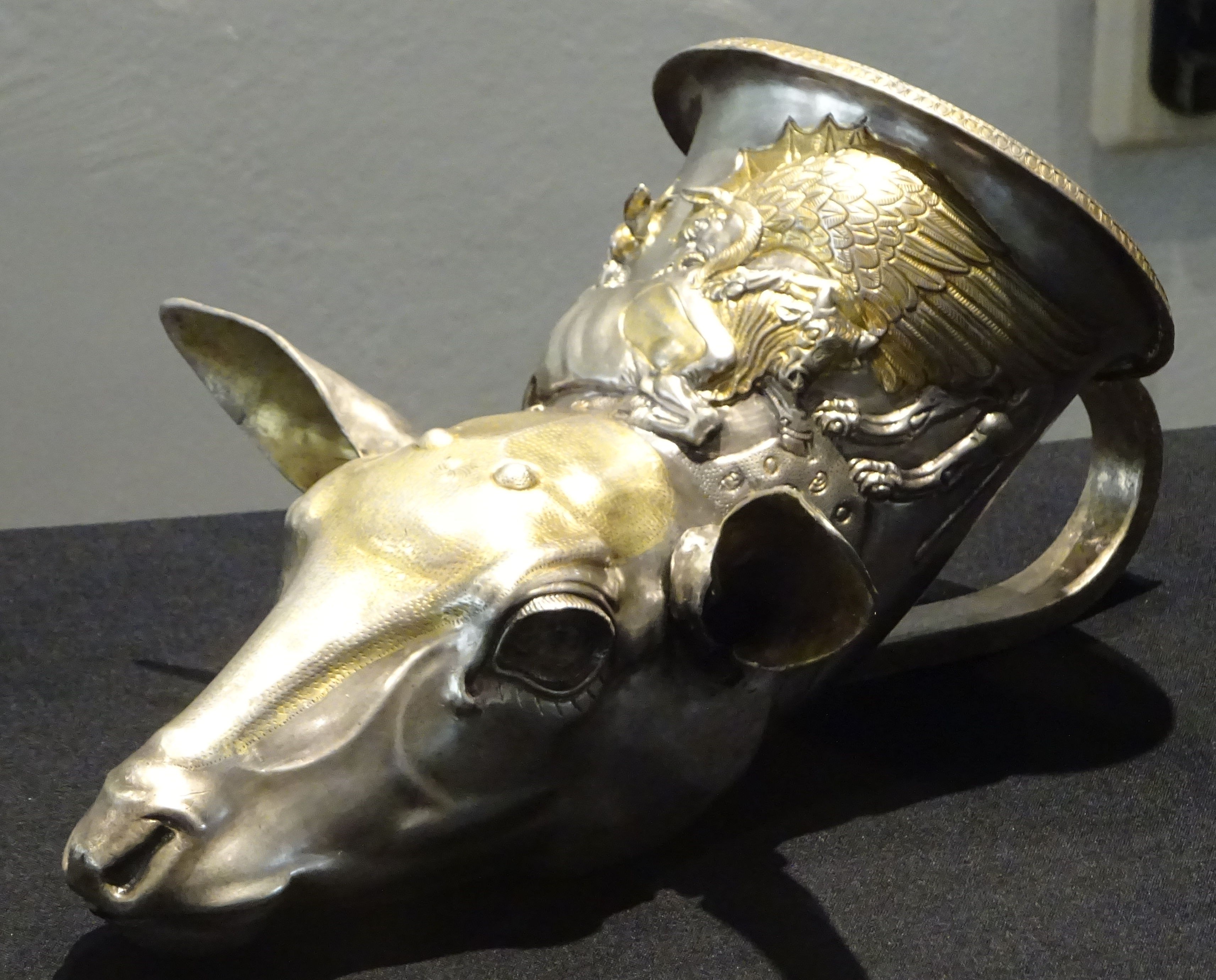 Rhyton. Silver. Yujna Mogila, Rozovets, Plovdiv region. 4th Century BC